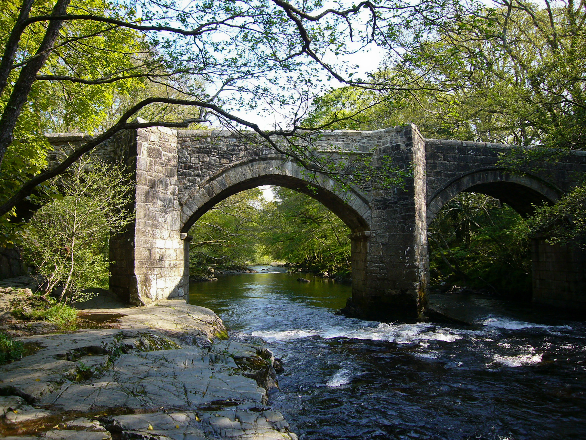 Newbridge on the River Dart near Spitchwick on Dartmoor. The stretch here is popular with canoeists.